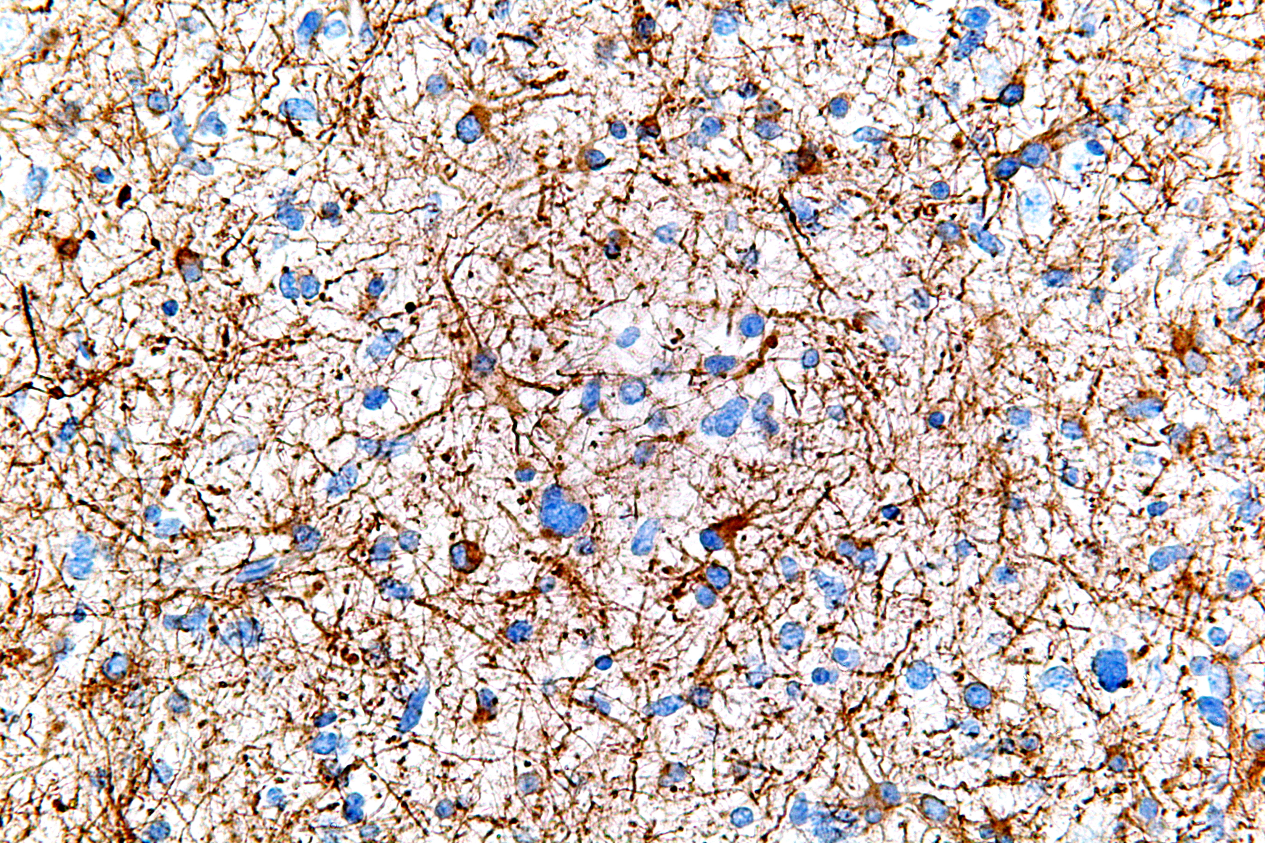 Very high magnification micrograph of an anaplastic astrocytoma. GFAP immunostain. The typical features are present: Marked nuclear atypia. Elongated nuclei (consistent with derivation from an astrocyte ). Mitoses. Fine fibrillary processes (consistent with a glial cell population). Cytoplasmic staining of atypical cells with GFAP. p53 immunohistochemical stain positivity. High proliferative rate based on Ki-67 staining. Related images Low mag. Intermed. mag. High mag. Very high mag. Ki-67. High mag. p53. Very high mag.